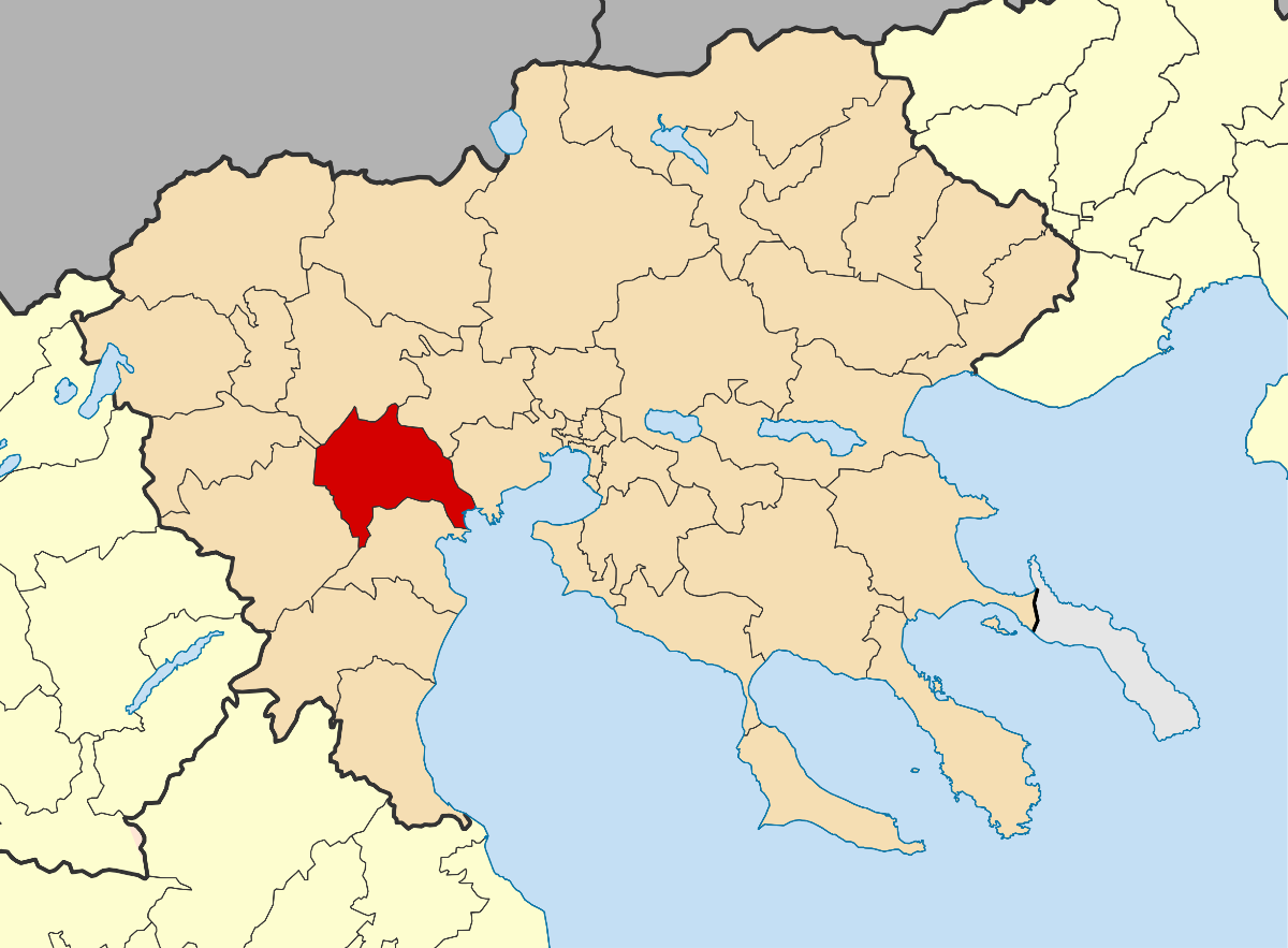 Locator map for Alexandria municipality in Greek region Central Macedonia (2011)